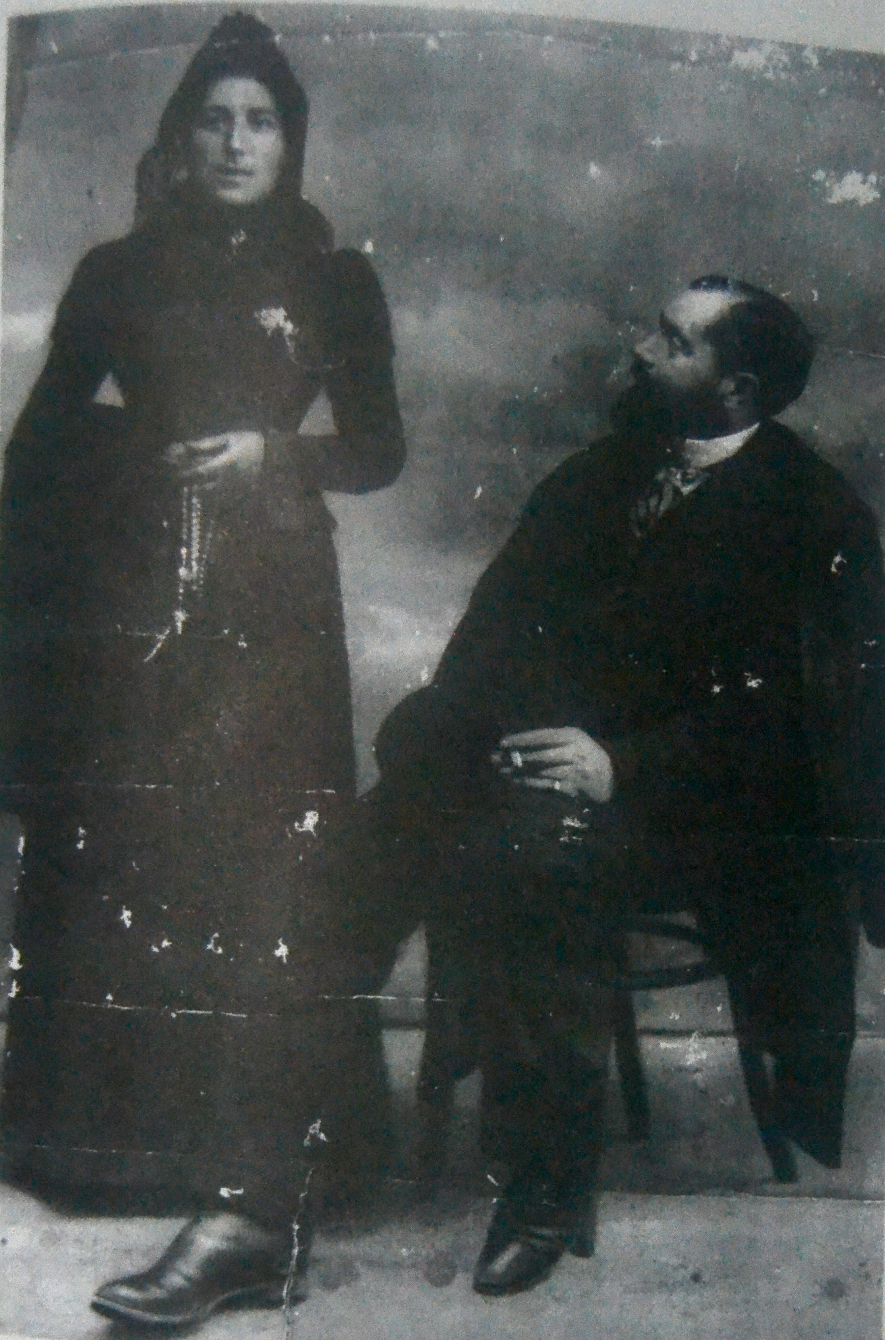 Sabin Arana Goiri and Nikolasa Atxika-Allende Iturri (1900).